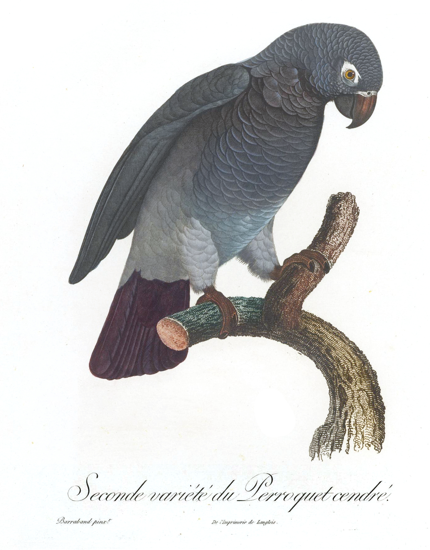 A Timneh African Grey Parrot Seconde variete du Perroquet Cendre